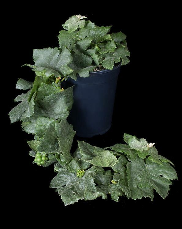 Picture of a pixie grape